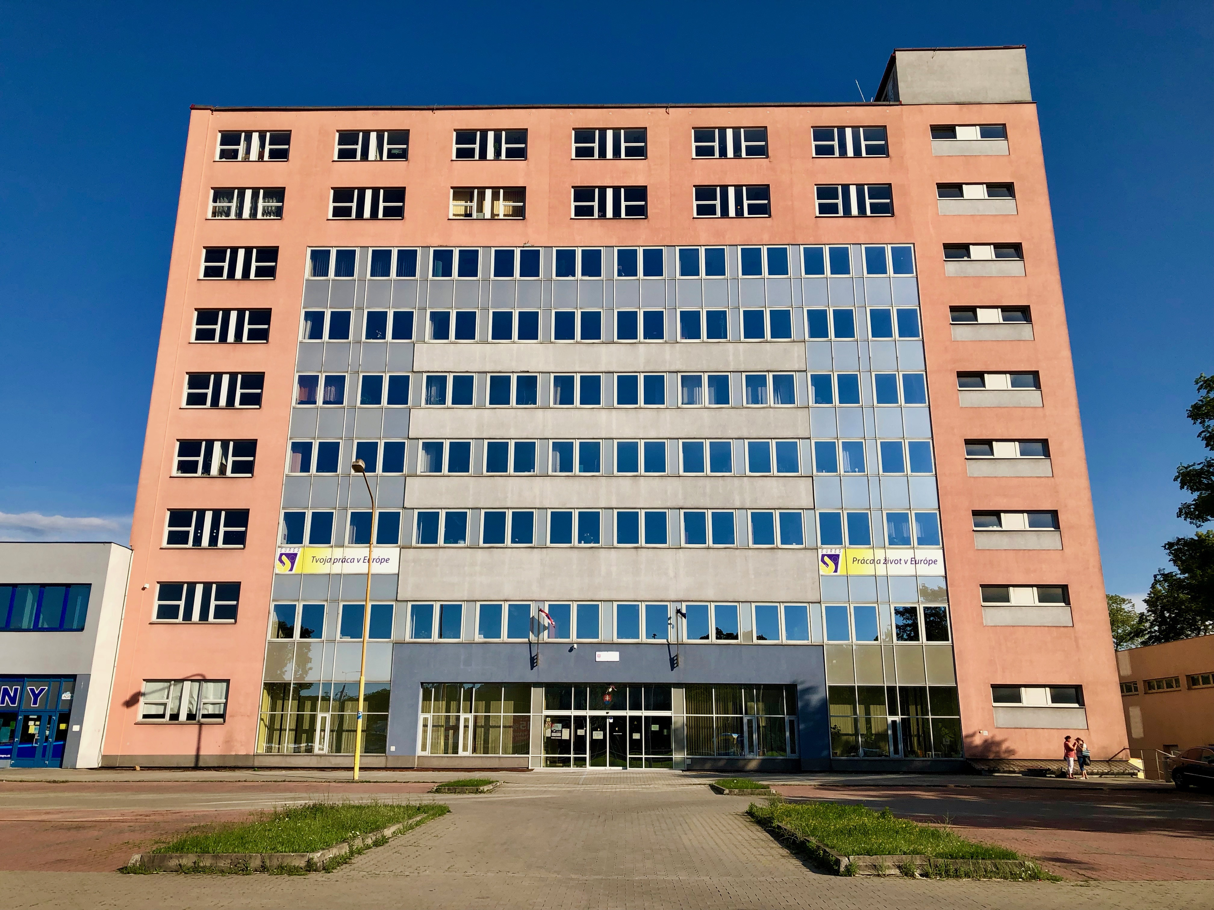 Building of Office of Labour, Social Affairs and Family in Košice